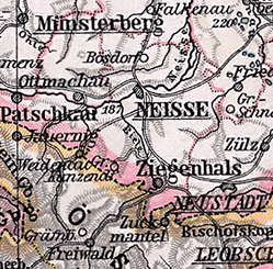 Detail from a map of Silesia.